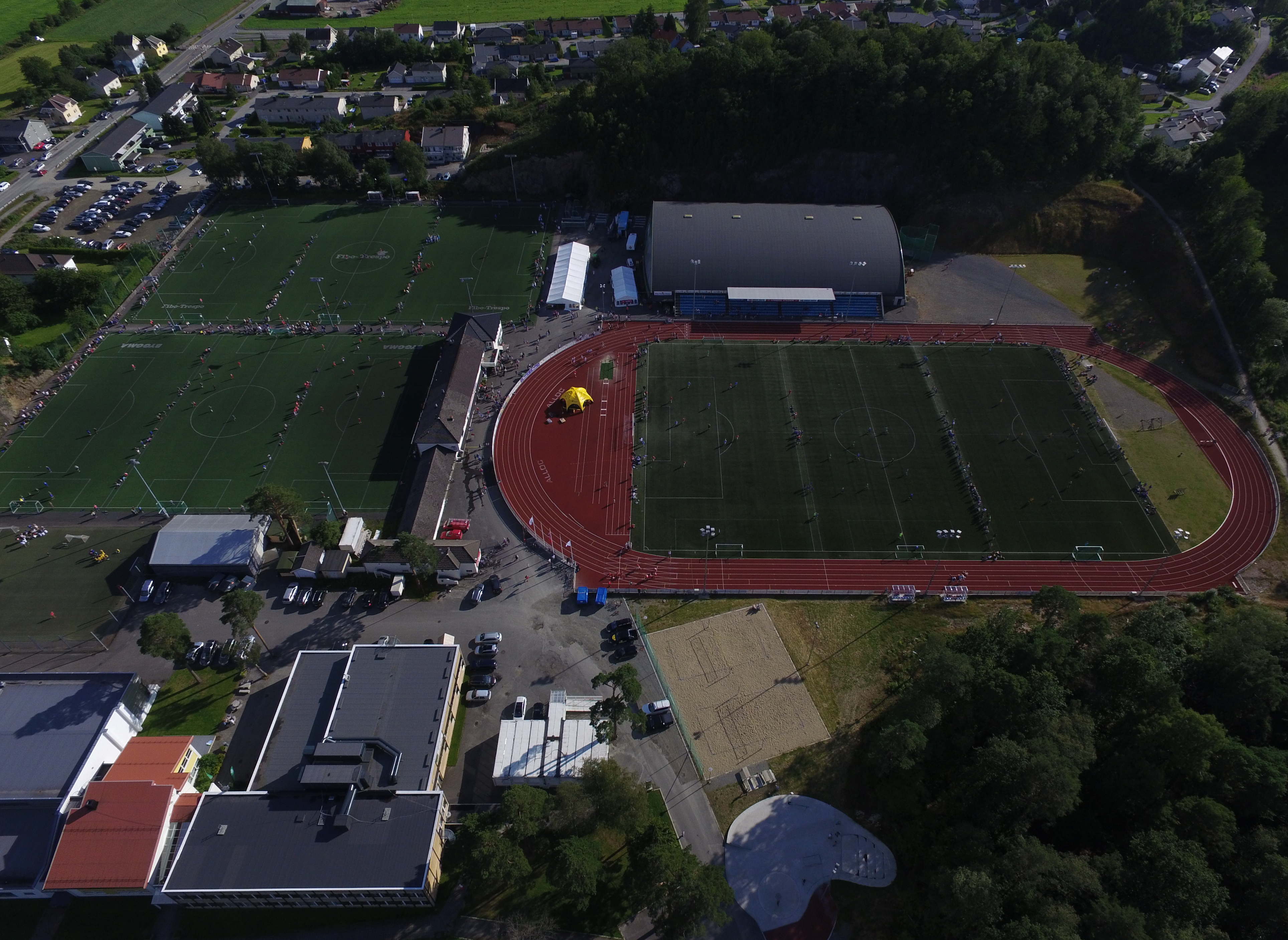 Lyngdal Stadion in Lyngdal, Norway.